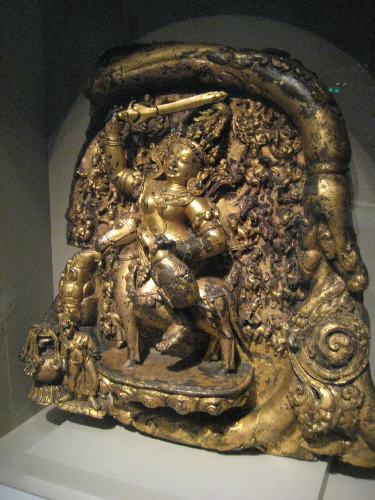 Central Tibet 15th century Gilt-copper, pigment, and semiprecious stones Item number: S1997.27